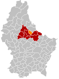 Own edit of Kanton DiekirchLocatie.png